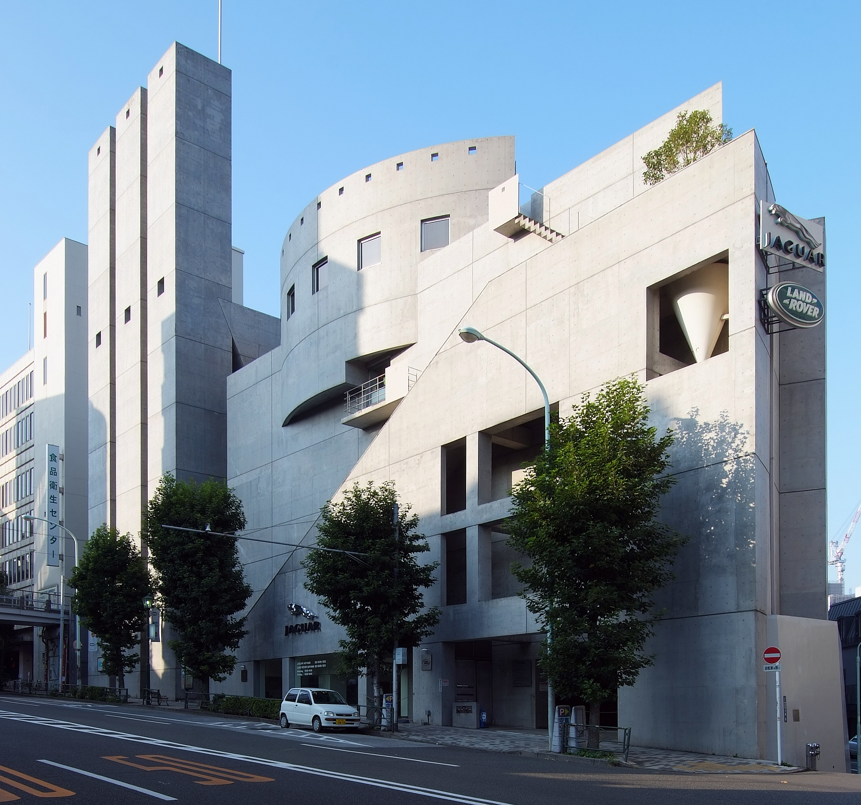 TERRAZZA, at Aoyama Tokyo Japan, design by Sei Takeyama in 1992.